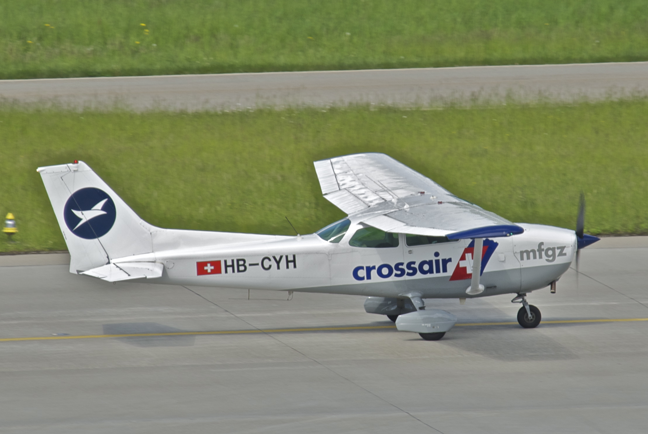 The Crossair name lives on! (Crossair scheme only!)